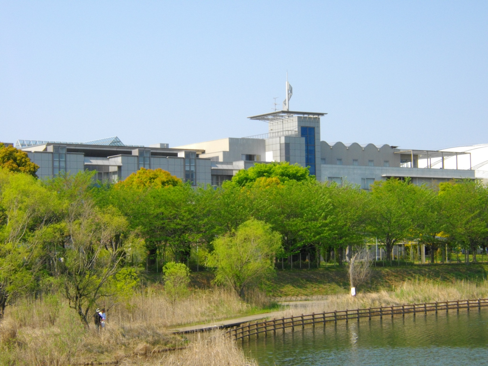 Sawayaka Chiba Kenmin Plaza(Plaza for Citizens of Chiba Prefecture)